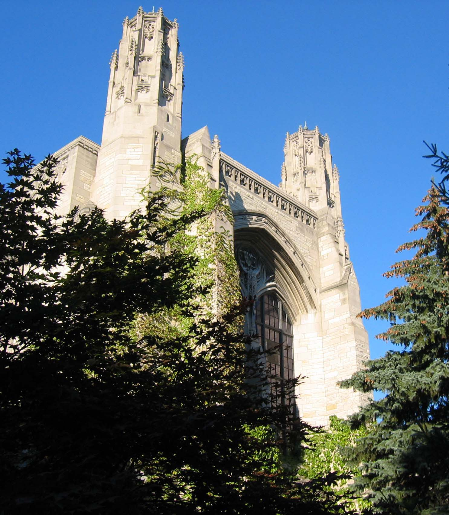 Northwestern University's Deering Library on the Evanston, IL., campus. Source: by Robms927 20:51, 29 July 2006 (UTC)